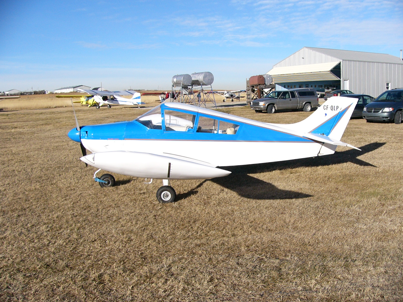 Cavalier SA102.5 at the Chestermere-Kirkby Fy-in